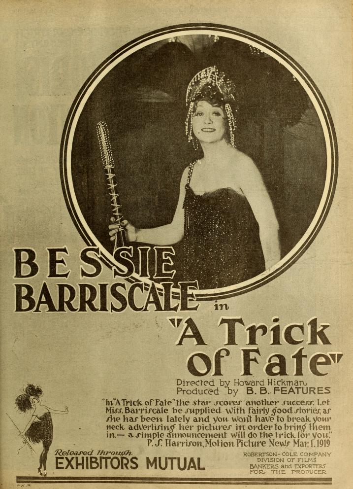 Advertisement in Moving Picture World, March 1919 for the film A Trick of Fate (1919) with Bessie Barriscale.